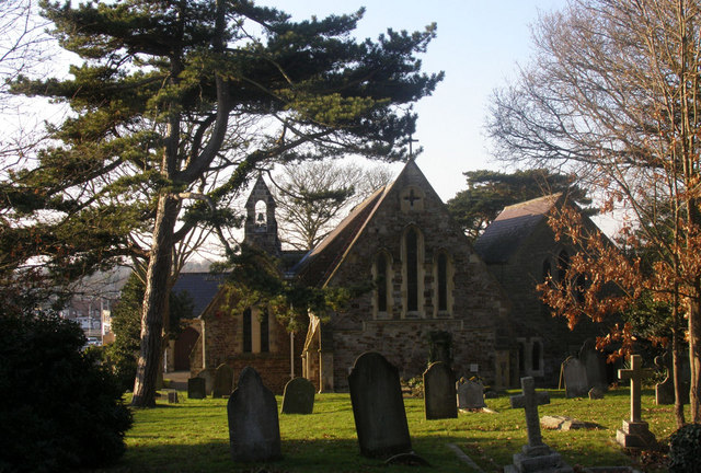 St Mark's Church, Little Common, Bexhill-on-Sea The church viewed from the east. Although the chancel was built from stone which once formed part of Martello Tower 42, the church has been considerably expanded.